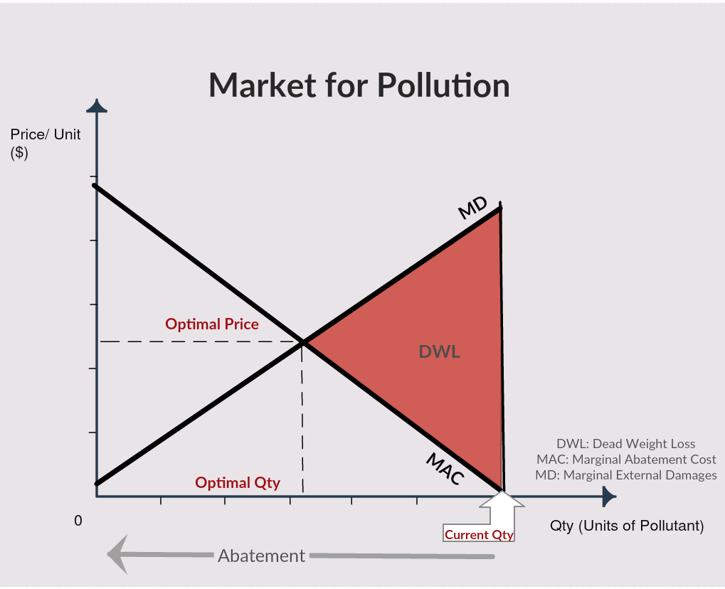 As the quantity of pollution decreases, the cost to abate each marginal unit pollution increases. The optimal point is where marginal damages intersects with marginal abatement costs.